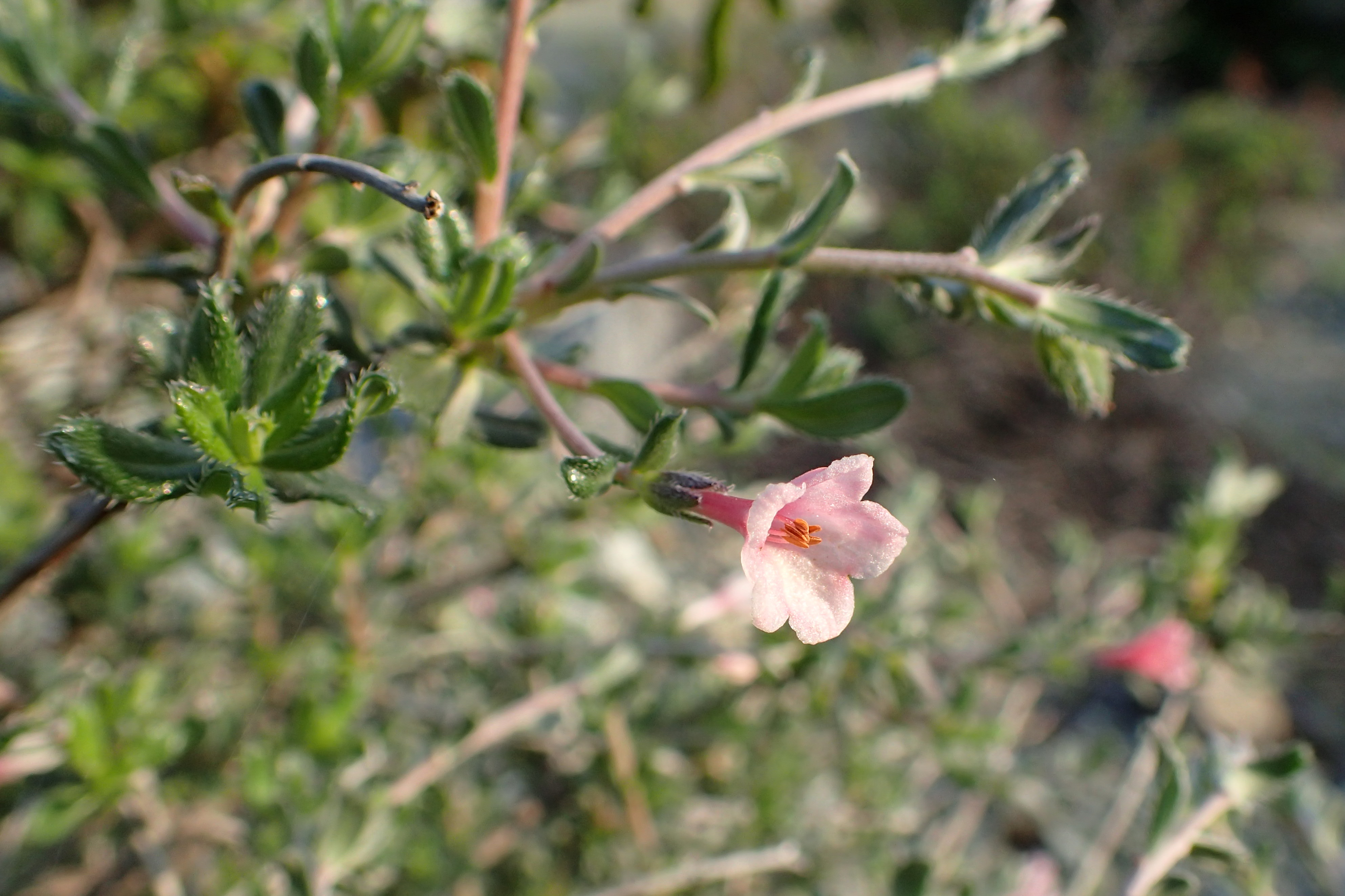 Lithodora hispidula subsp. versicolor N from Pareklisia, Cyprus